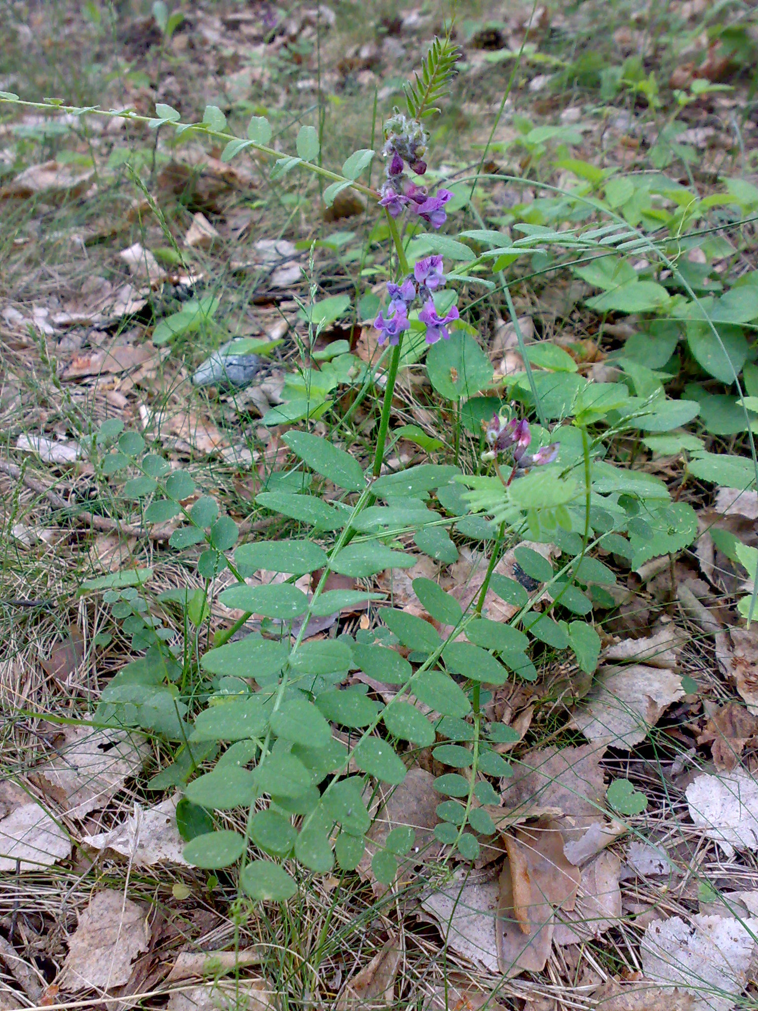 Vicia Sepium